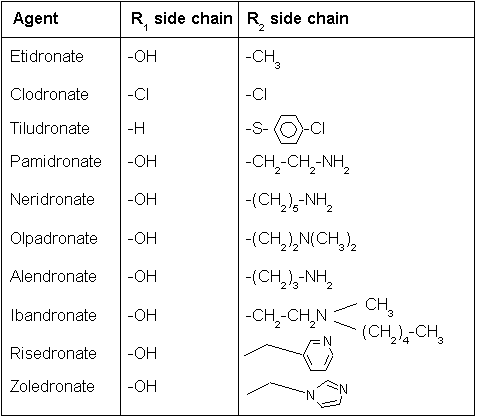 Bisphosphonate side chain forms